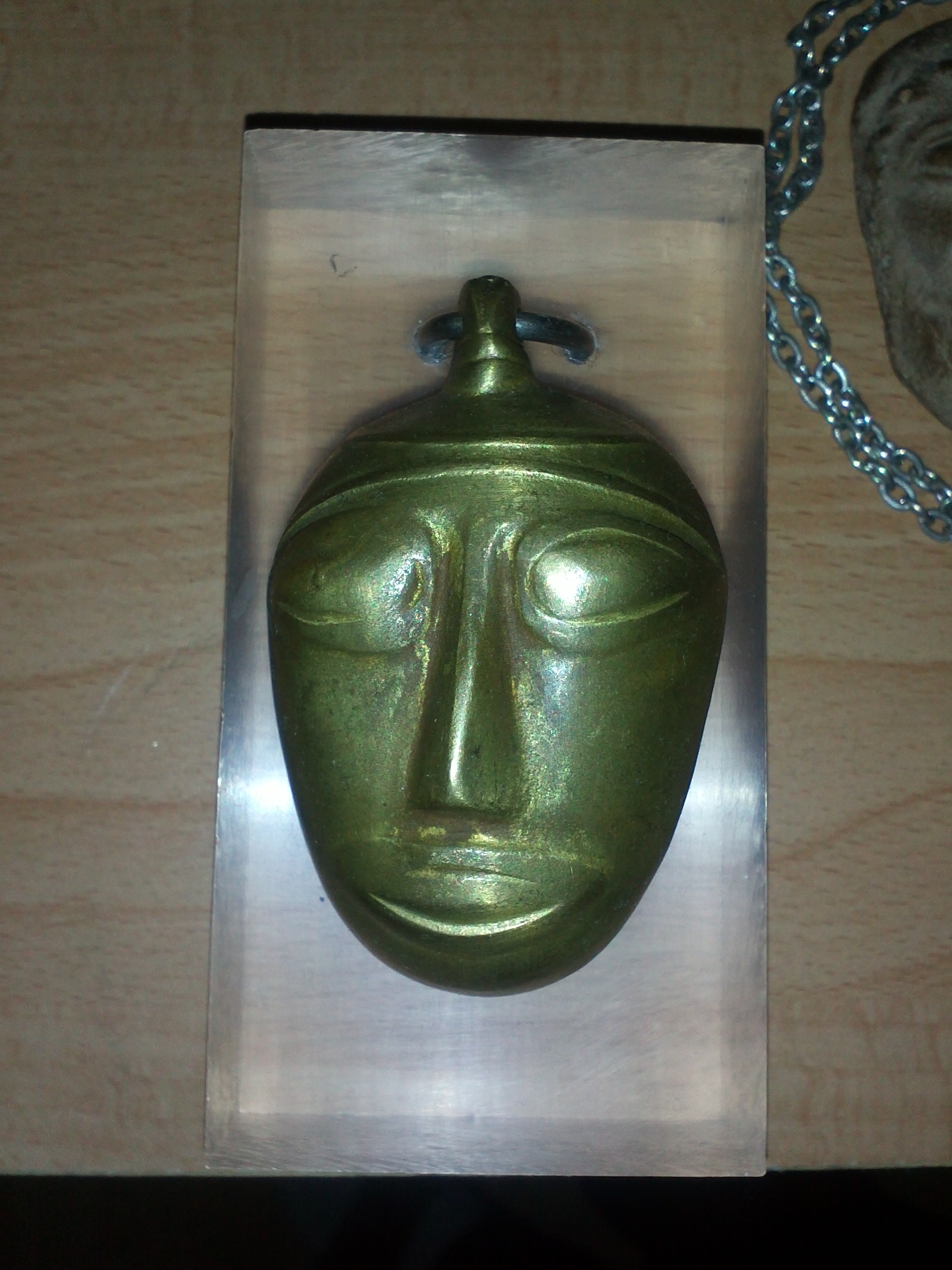 Rank insignia naga in brass